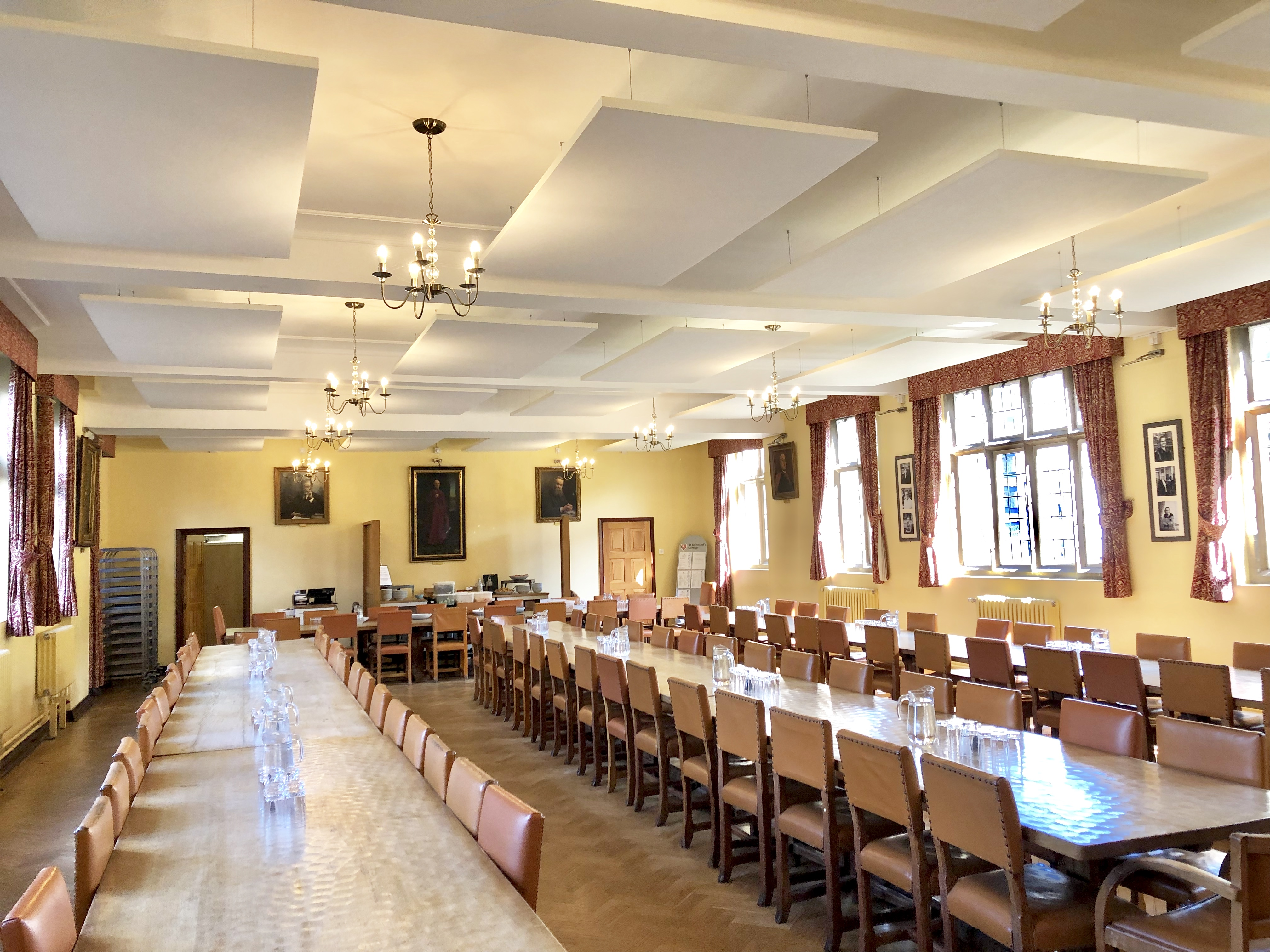 St Edmund's College Dining Hall for daily meals